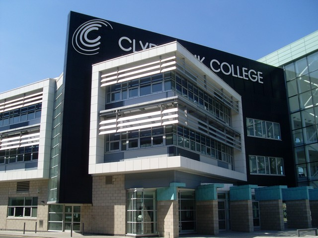 Clydebank College The new campus of the college at the Clydebank waterfront.